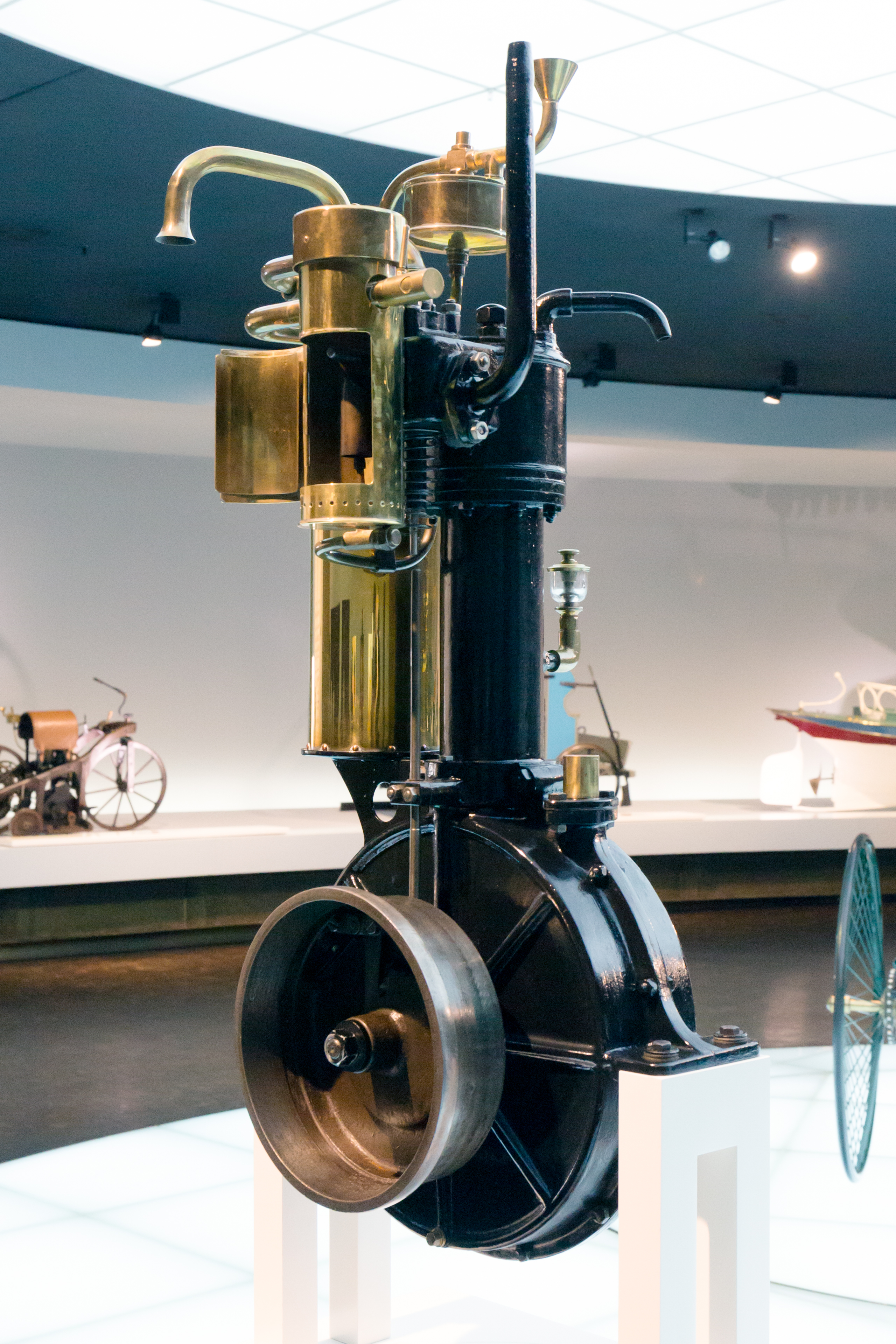 1886 Daimler Standuhr engine